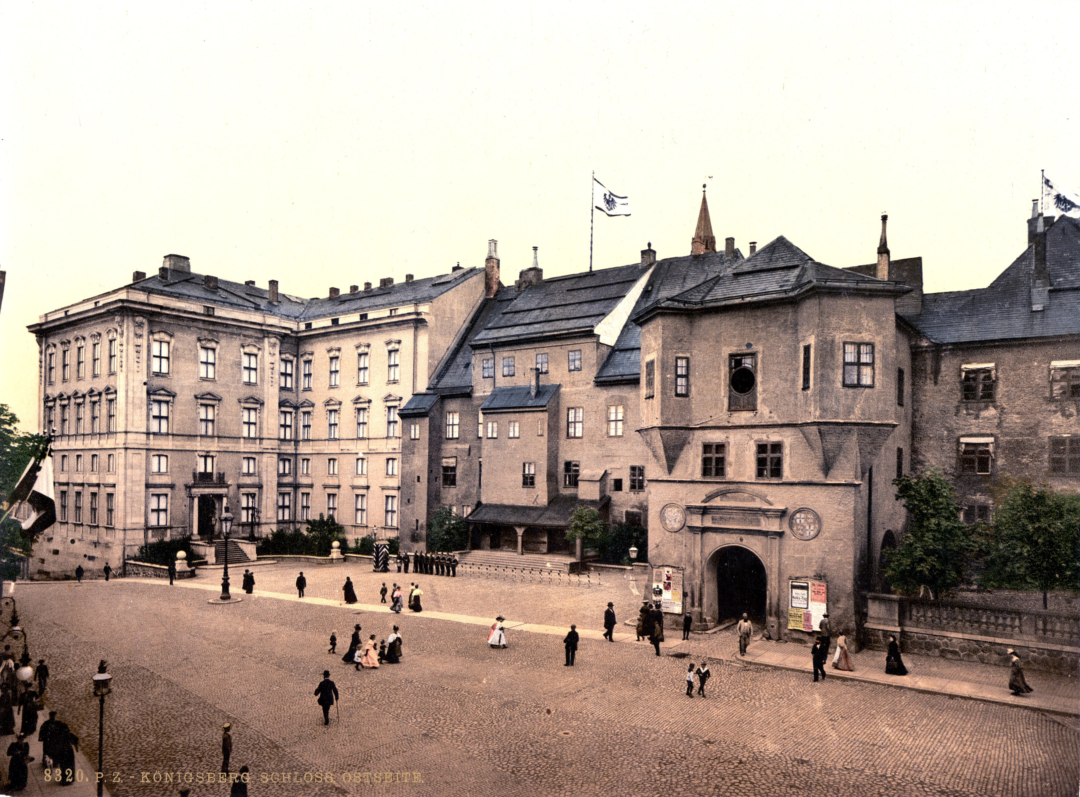 Königsberg Castle Kaliningrad, Russia